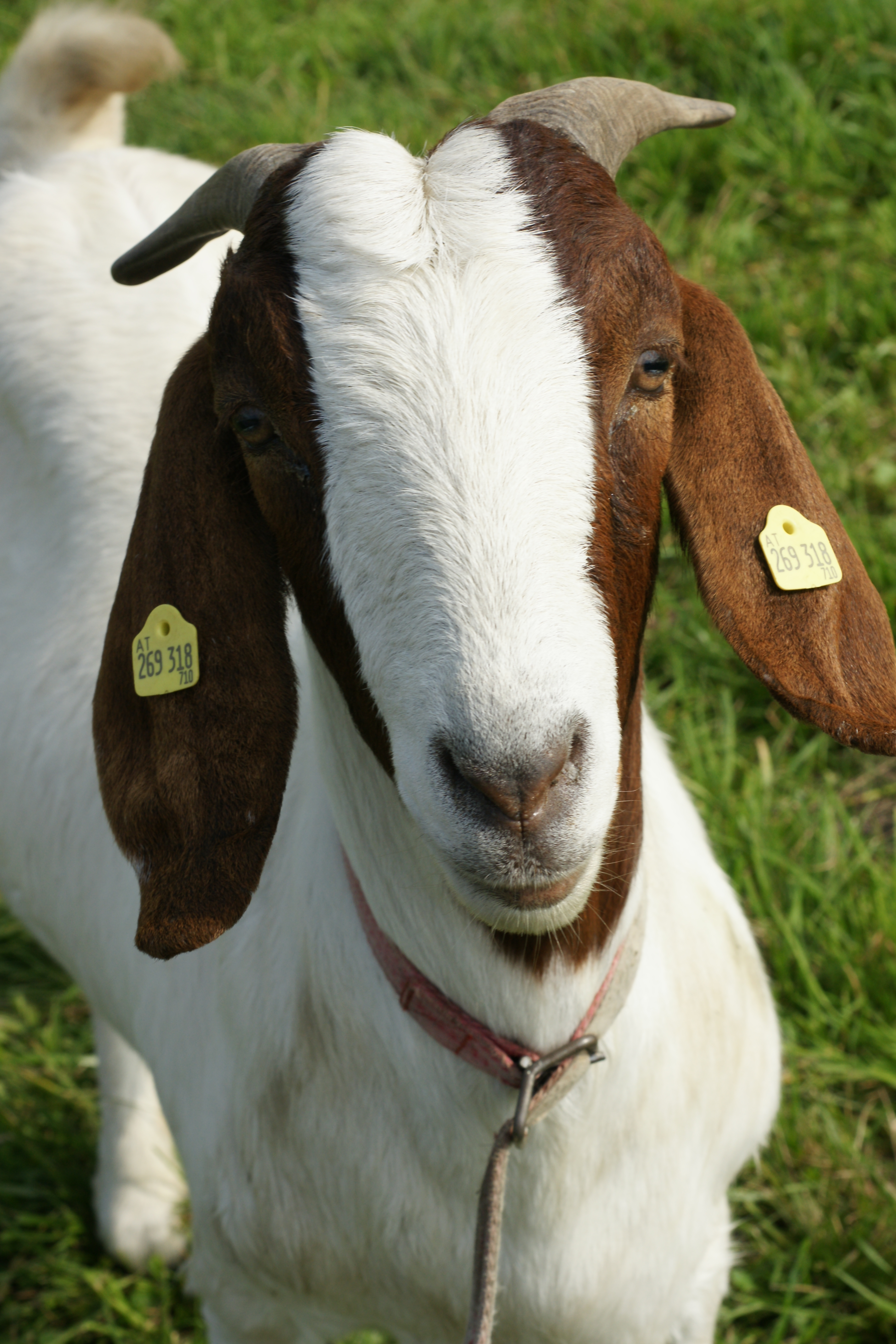 The Boer goat was developed in South Africa in the early 1900s for meat production. Their name is derived from the Dutch word "Boer" meaning farmer.